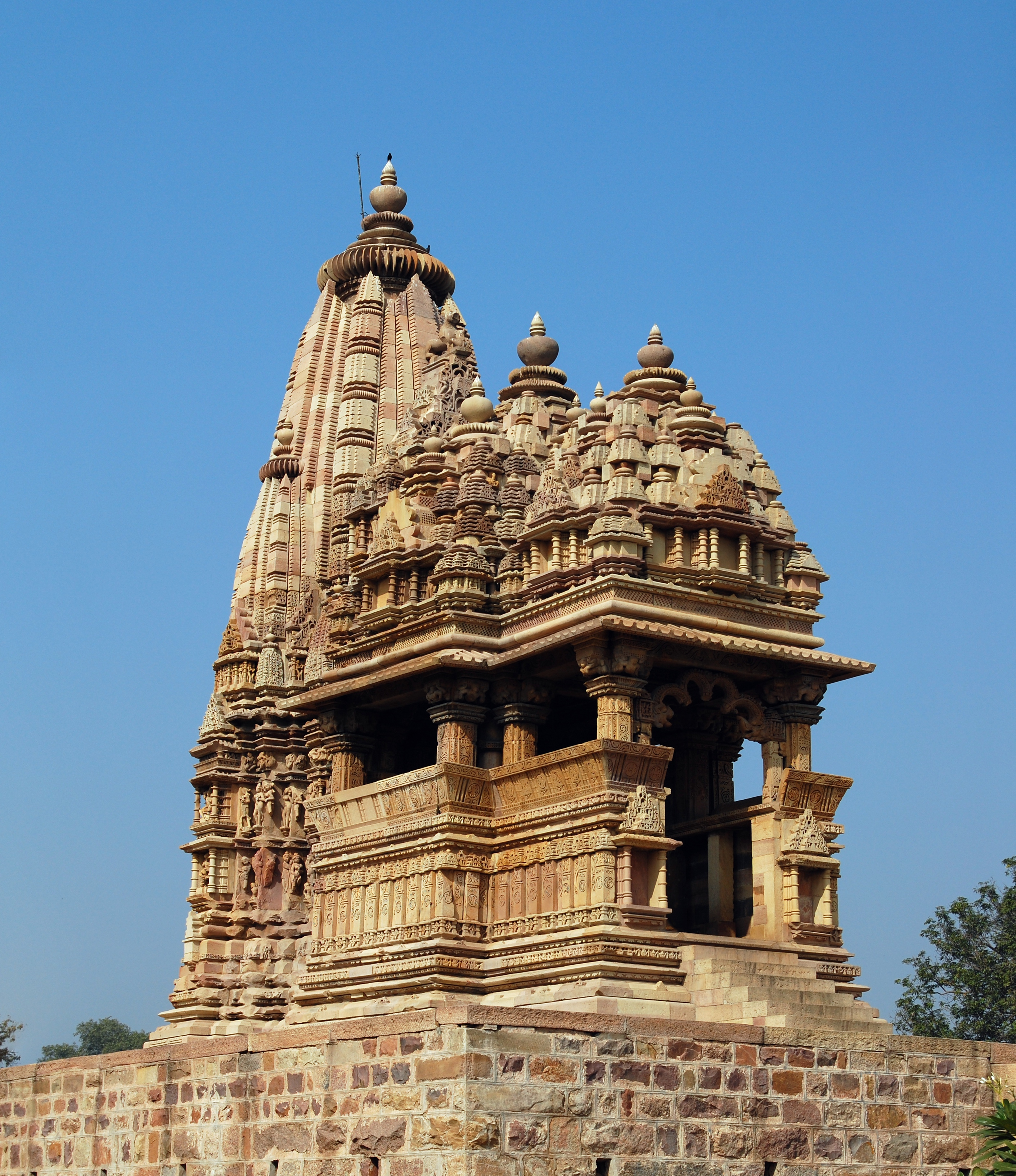 Jeveri Temple, Eestern Group of Temples, Khajuraho, India.